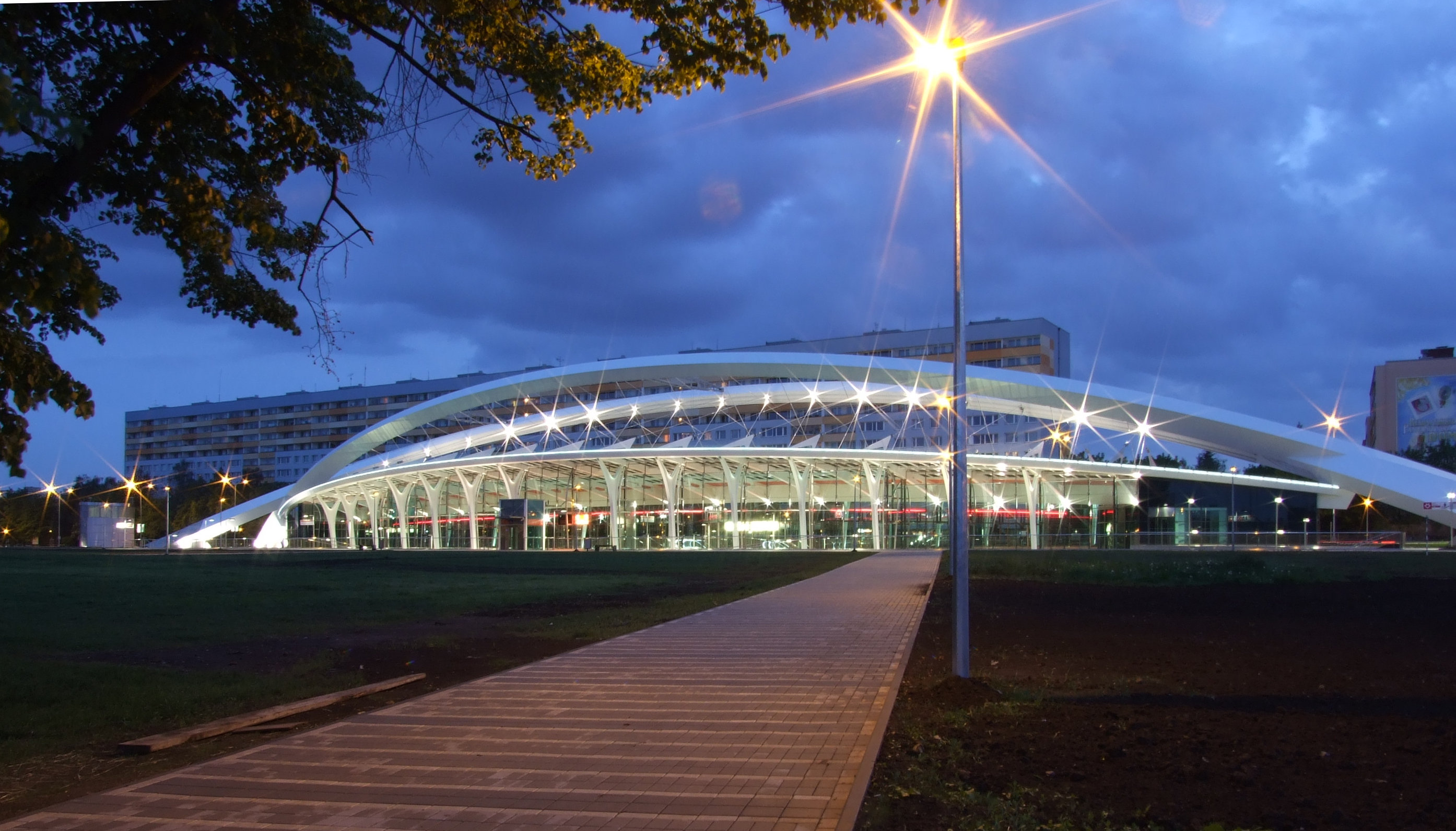 Střížkov metro station in Prague, several days after opening for publichelp